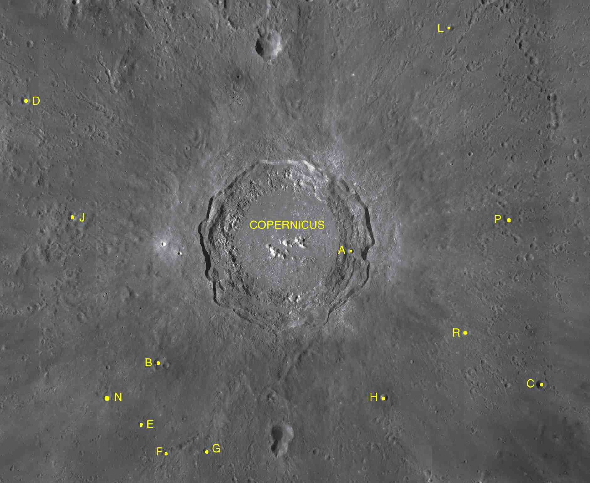 Part of the chart LAC-58 used for the presentation